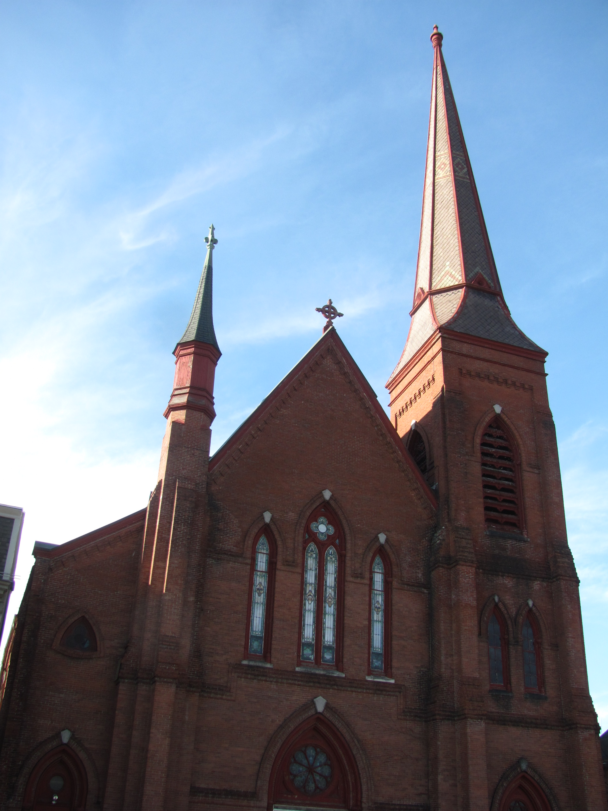 Grace United Methodist Church, Keene New Hampshire